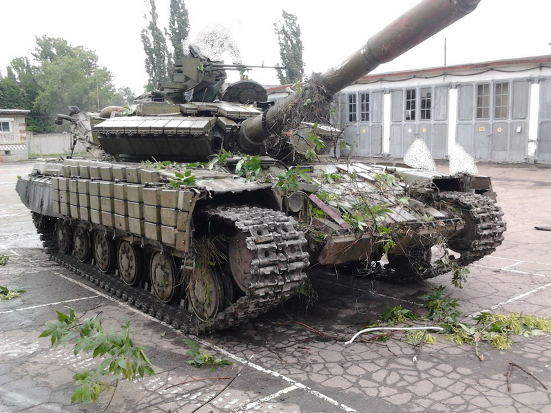 T64BV searchligt number 5 captured by Ukrainian forces in Artemivsk during pro-Russian forces attack attempt in June 2014